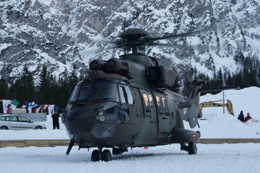 Air force of Slovenia helicopter